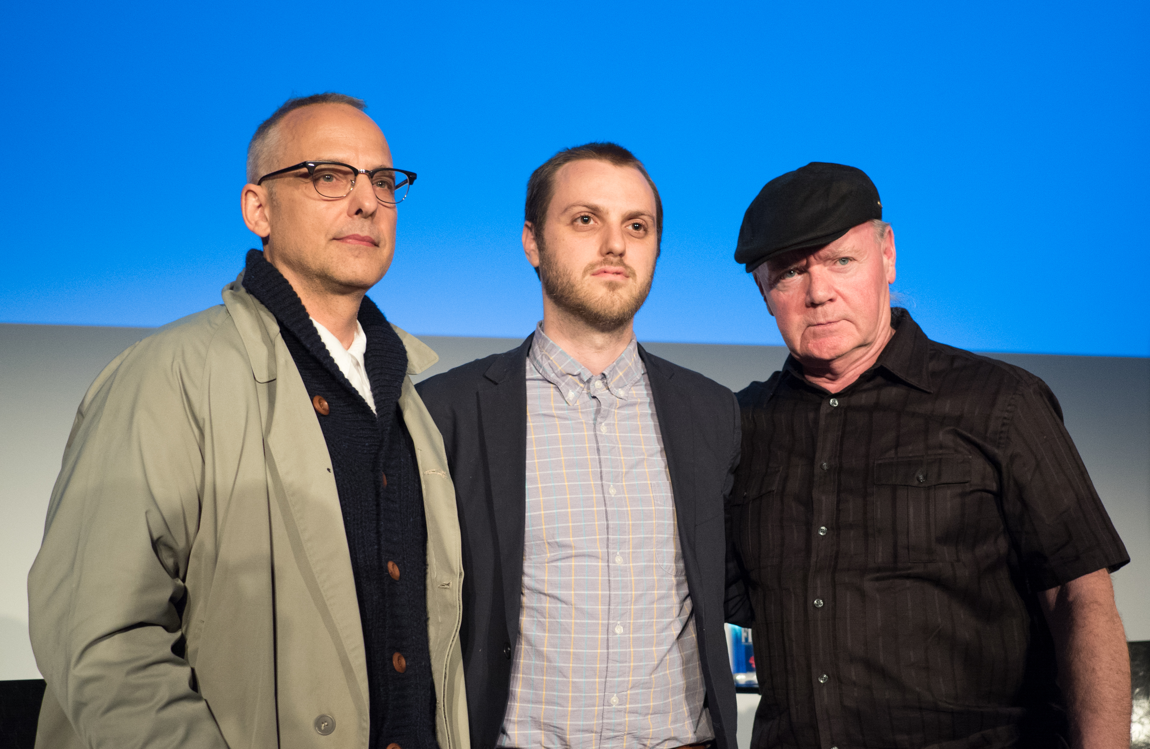 Marc Smerling, Zac Stuart-Pontier, and Charles Kennedy at the Crimetown Live session of the Vulture Festival in NYC.